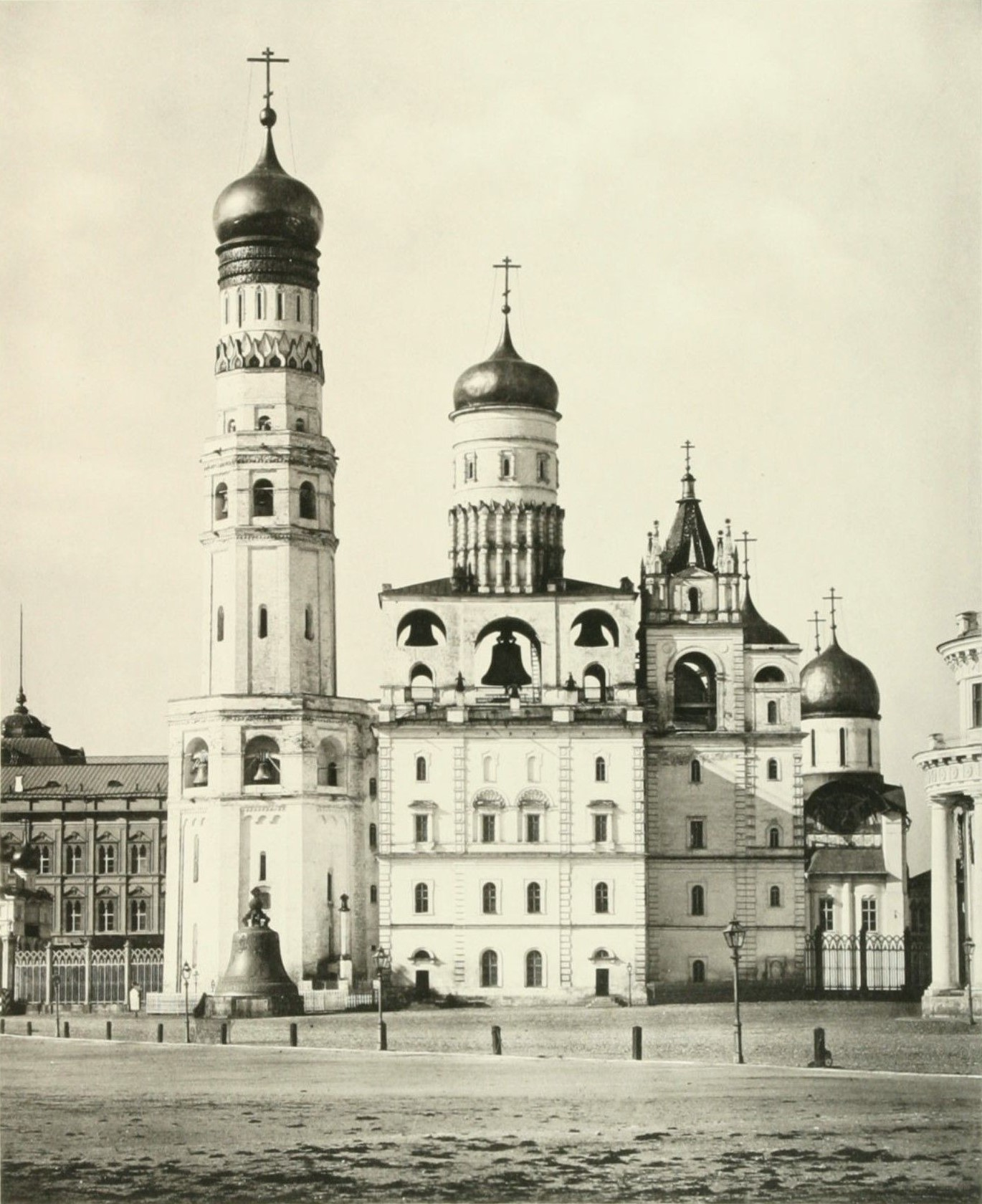 Church of John the Climacus (Ivan the Great), Moscow.